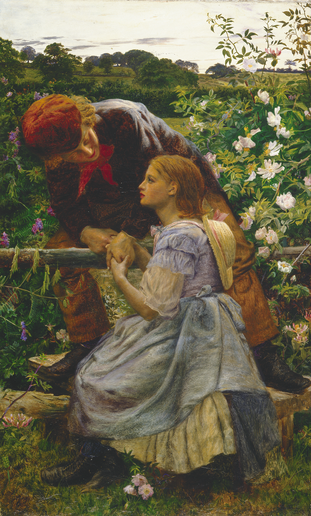 Painting illustrating an 1827 poem by Thomas Hood, Ballad.